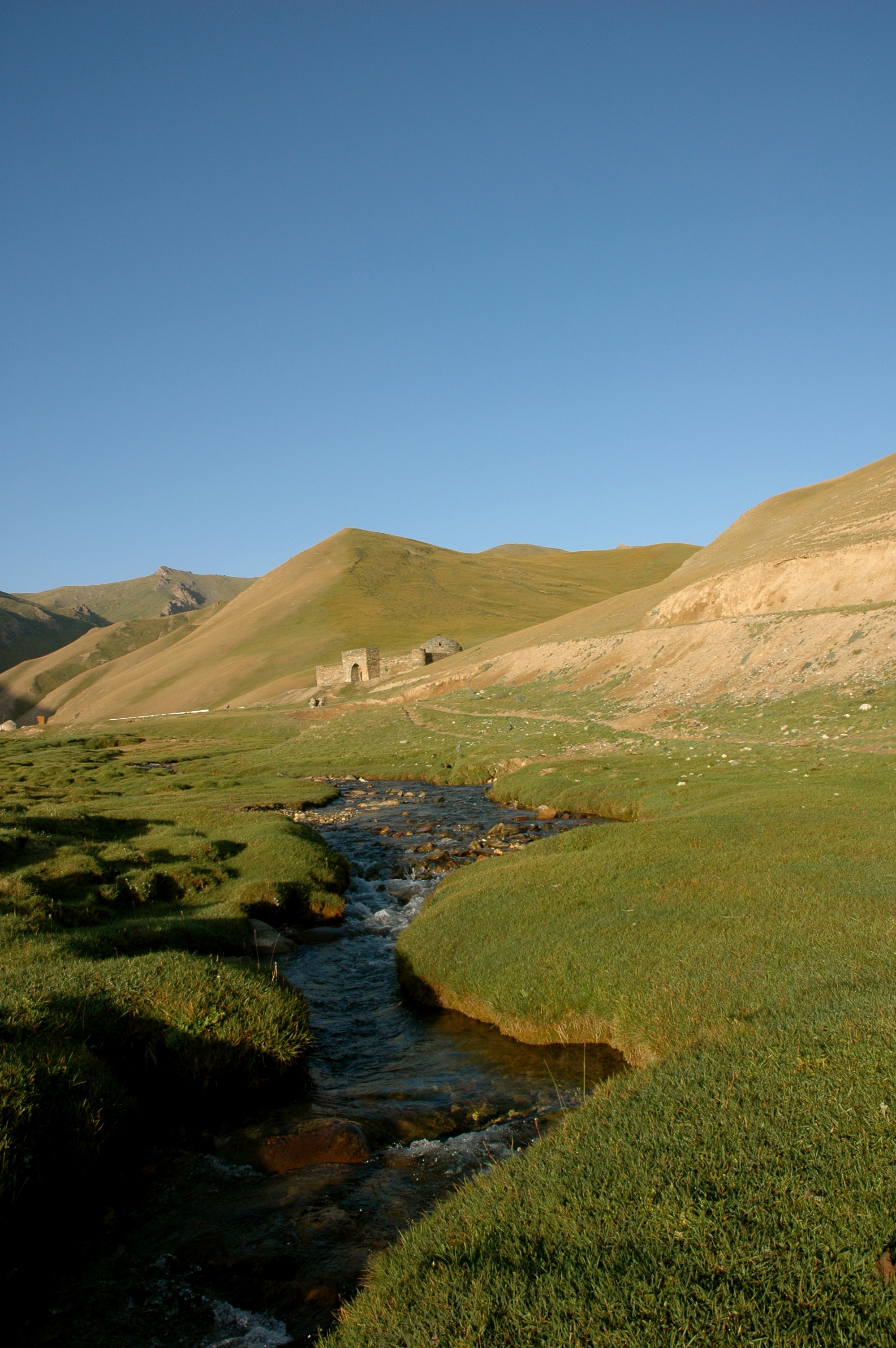 Ruins of the caravanserai Tash Rabat, Kyrgyzstan